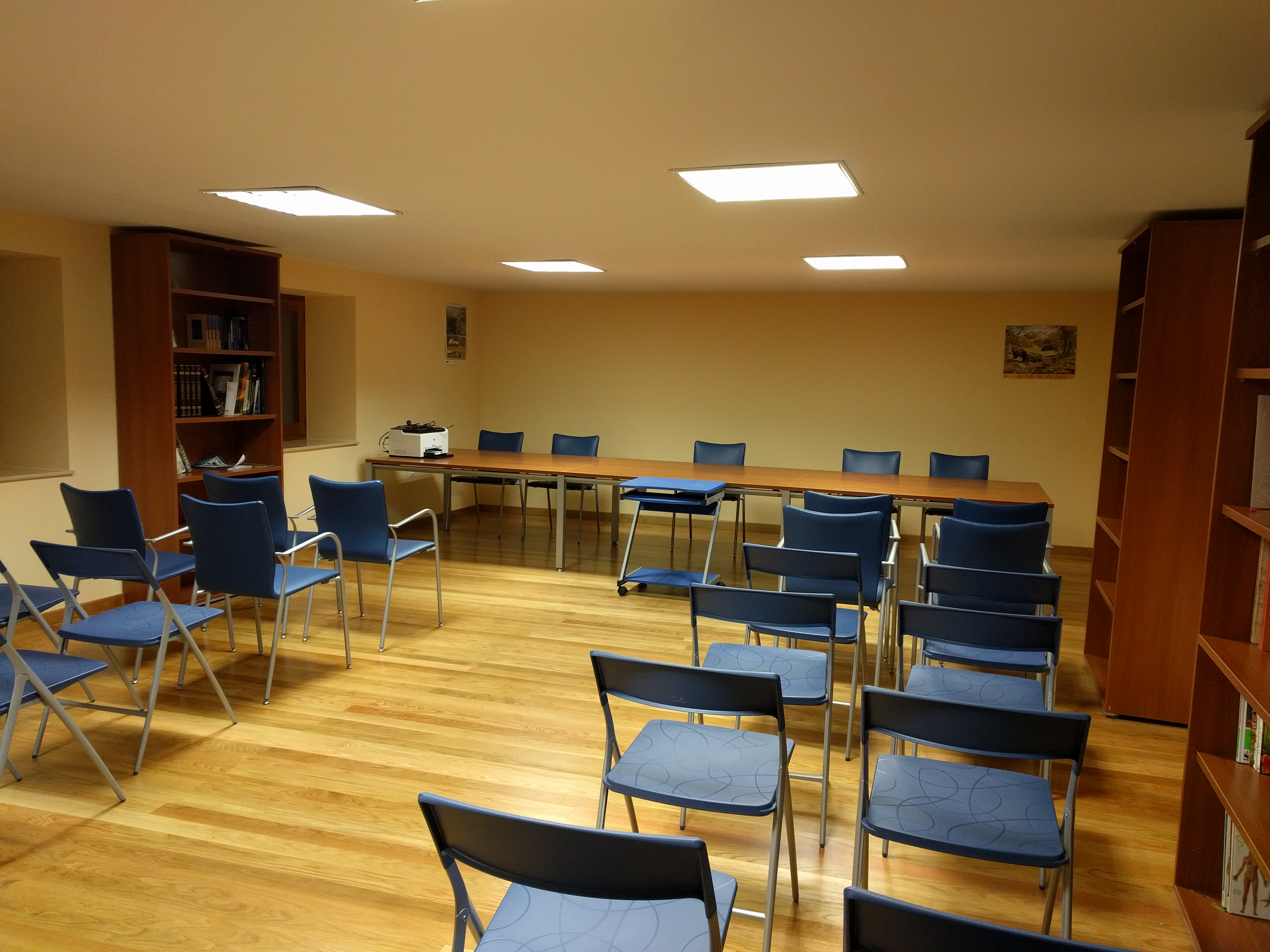 Aula de la naturaleza de Valdavido